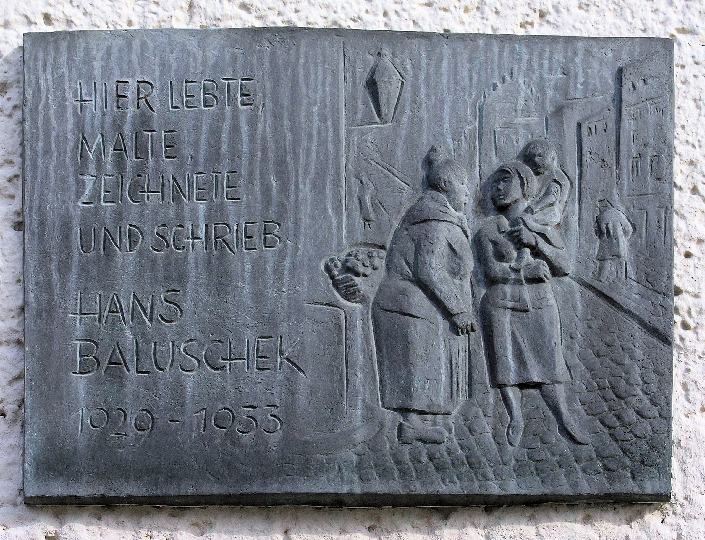 Memorial plaque, Hans Baluschek, Ceciliengärten 27, Berlin-Schöneberg, Germany Koordinate:52°28′17.8″N 13°20′30.1″E / 52.471611°N 13.341694°E